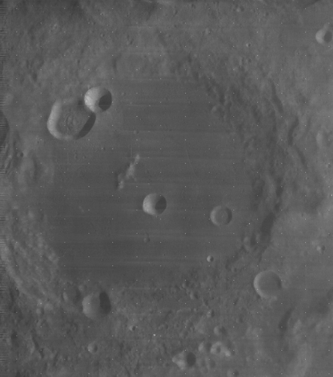 Cleomedes, on the moon.